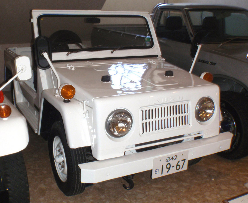 Isuzu Unicab at the Motorcar Museum of Japan